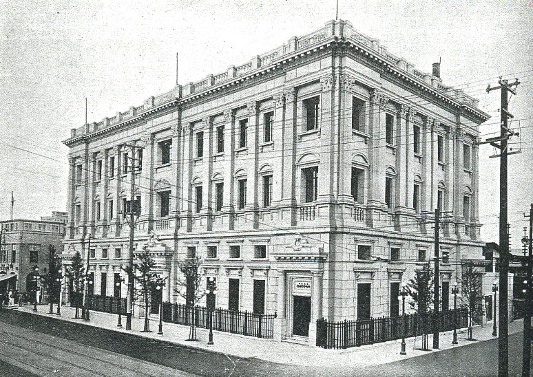 Kawasaki Bank Main Office (Built in June,1927,Designed by Kawasaki Bank Architect Department(Matakichi Yabe), Chuo ward,Tokyo,Japan , defunct)